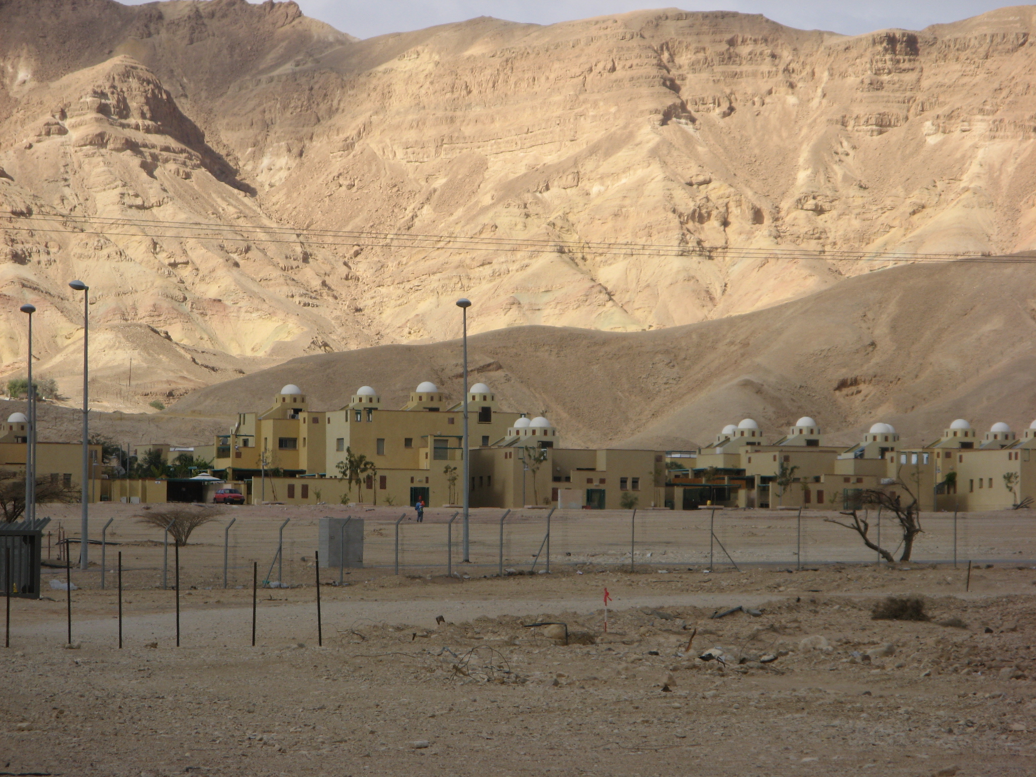 Beer Ora houses